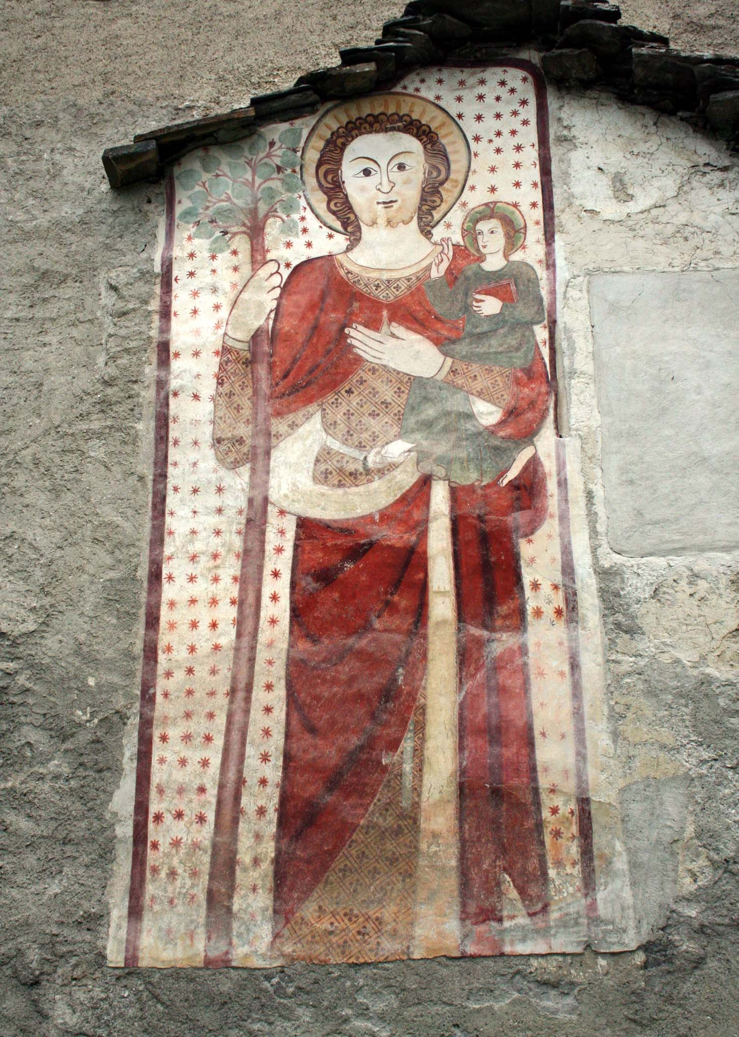 Christophorus